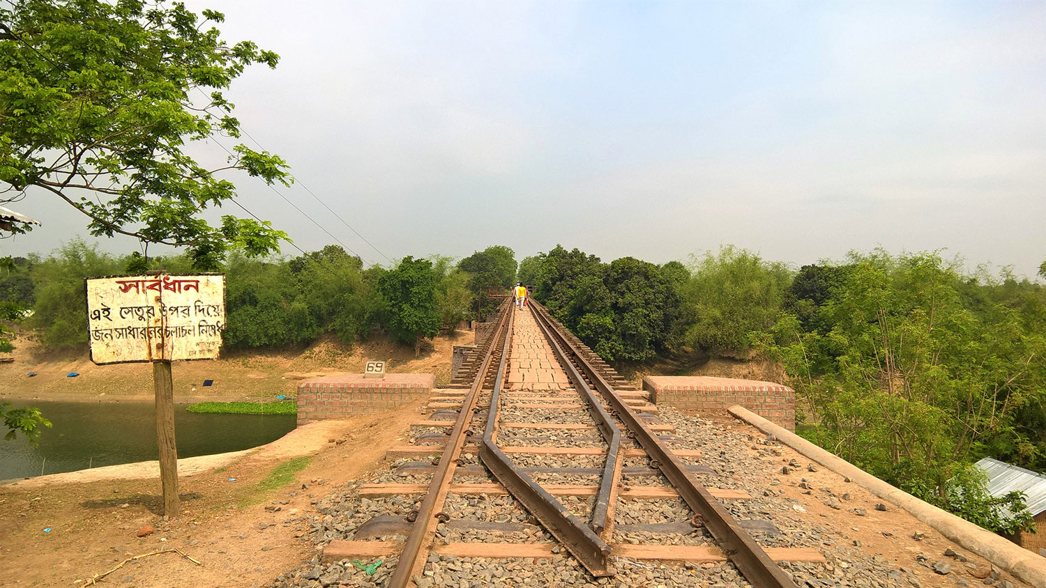 Rohanpur Railway Bridge is a steel railway bridge over the river Mahananda-Punarbhaba located at Rohanpur in western Bangladesh.